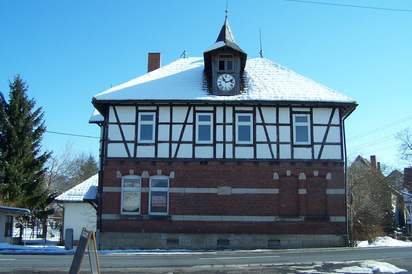 The old schoolhouse in Waldfisch.